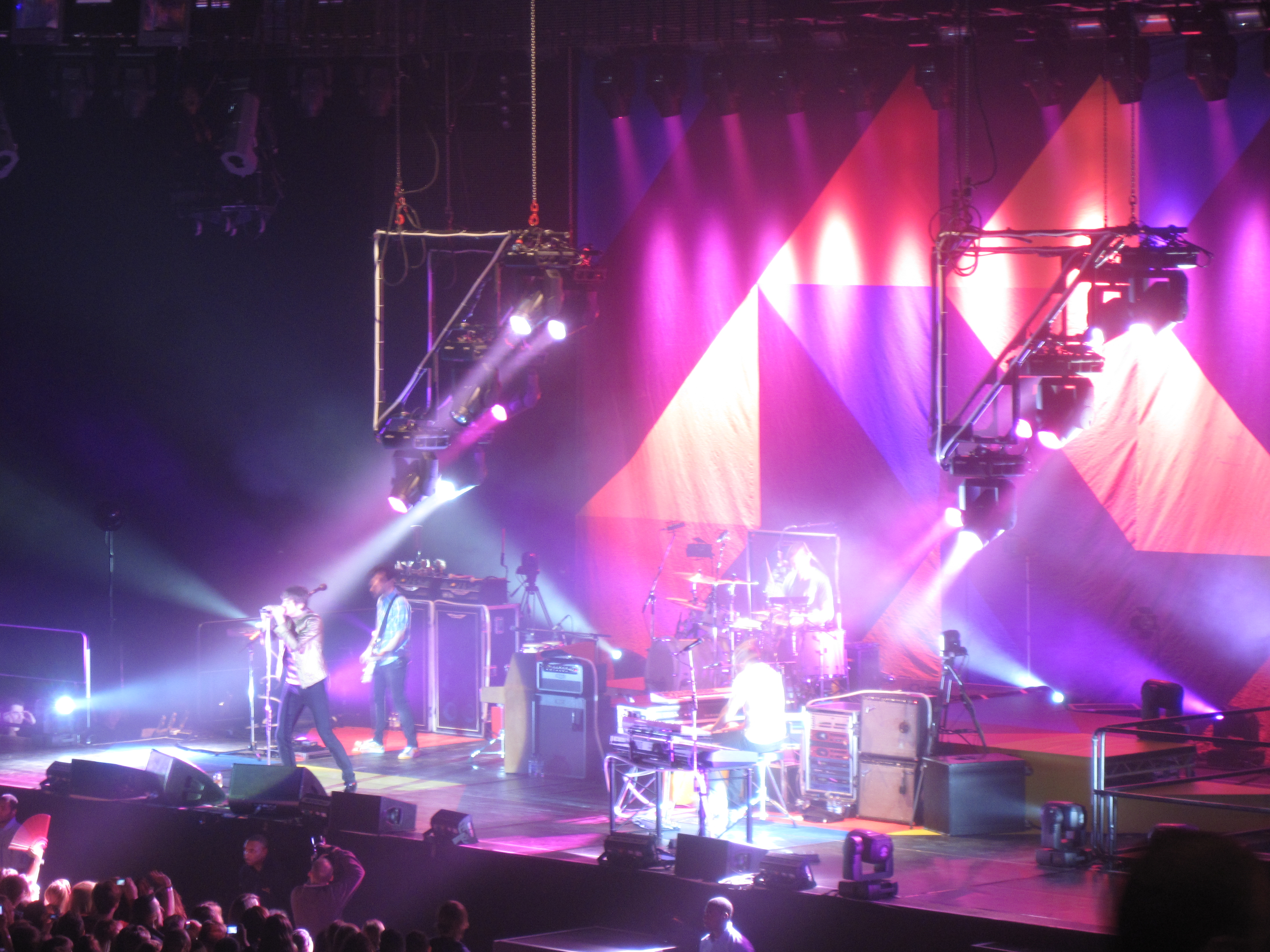 Keane - concert in London